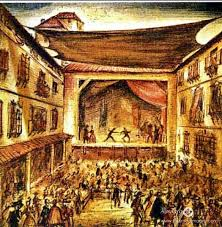 Corral de comedias 2